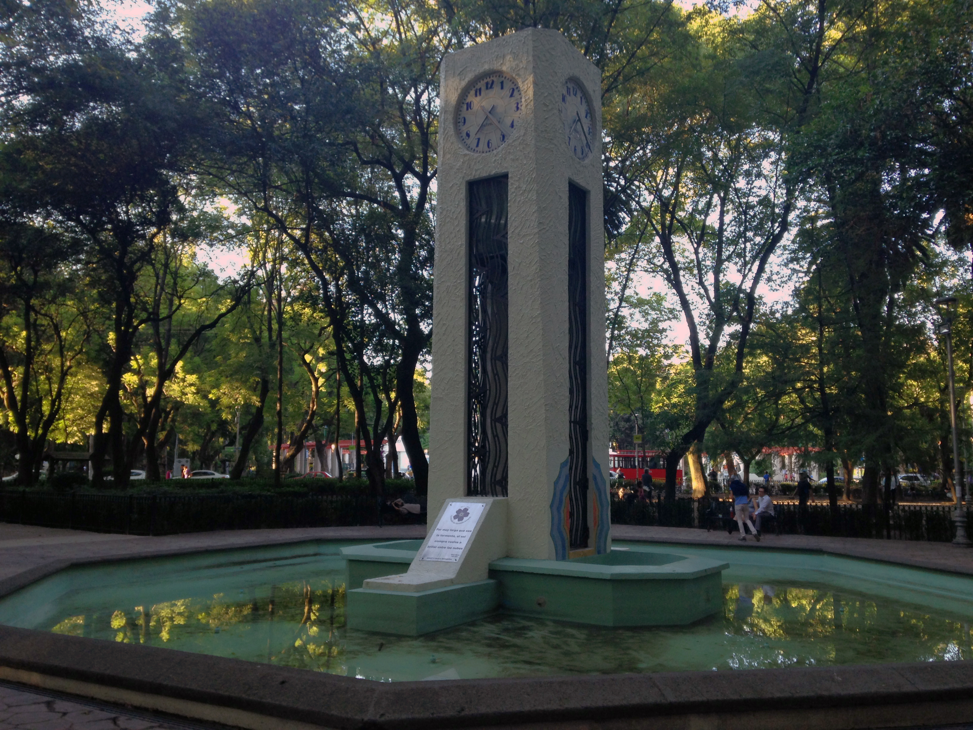 Plaque commemorating the Armenian Genocide, in the Art Deco style clock donated by the Armenian community in Mexico circa 1930. Parque Mexico, Mexico City.